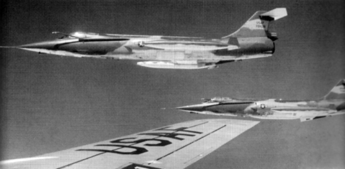 Two U.S. Air Force Lockheed F-104C-10-LO Starfighters (the nearer one is s/n 57-0928) from the 435th Tactical Fighter Squadron, 8th Tactical Fighter Wing, based at Ubon Royal Thai Air Force Base, flying next to a Boeing KC-135A Stratotanker in October 1966. The 435th used the F-104C until they were replaced by McDonnell F-4D Phantom IIs in early 1967.